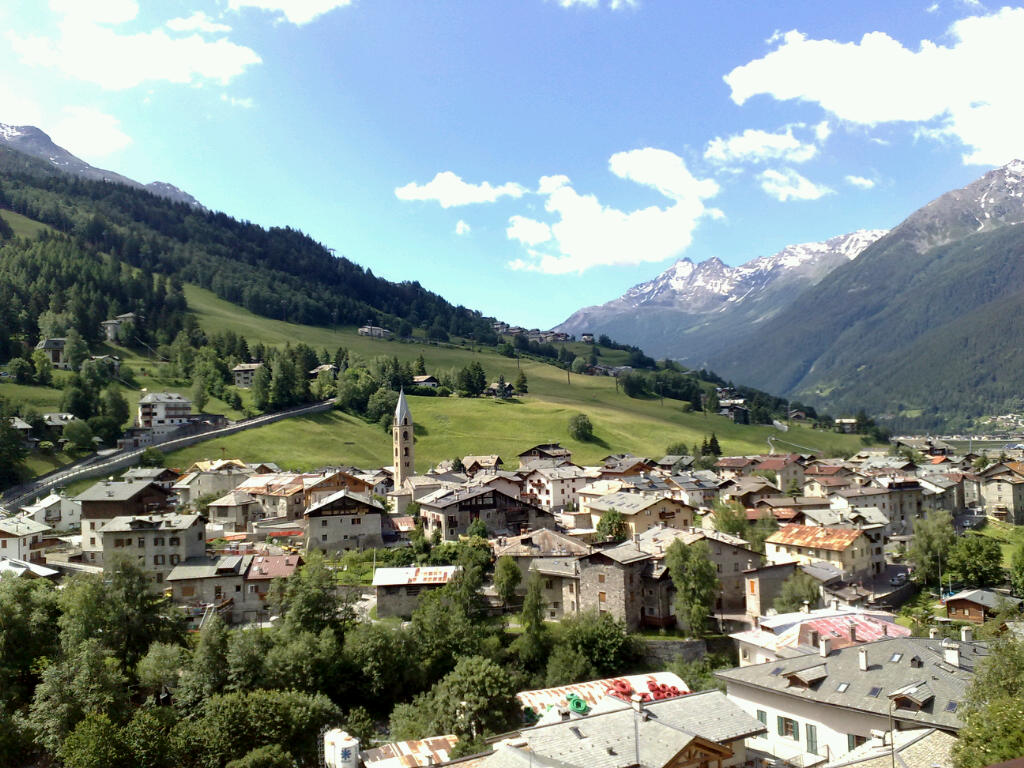 Panoramic view of Bormio